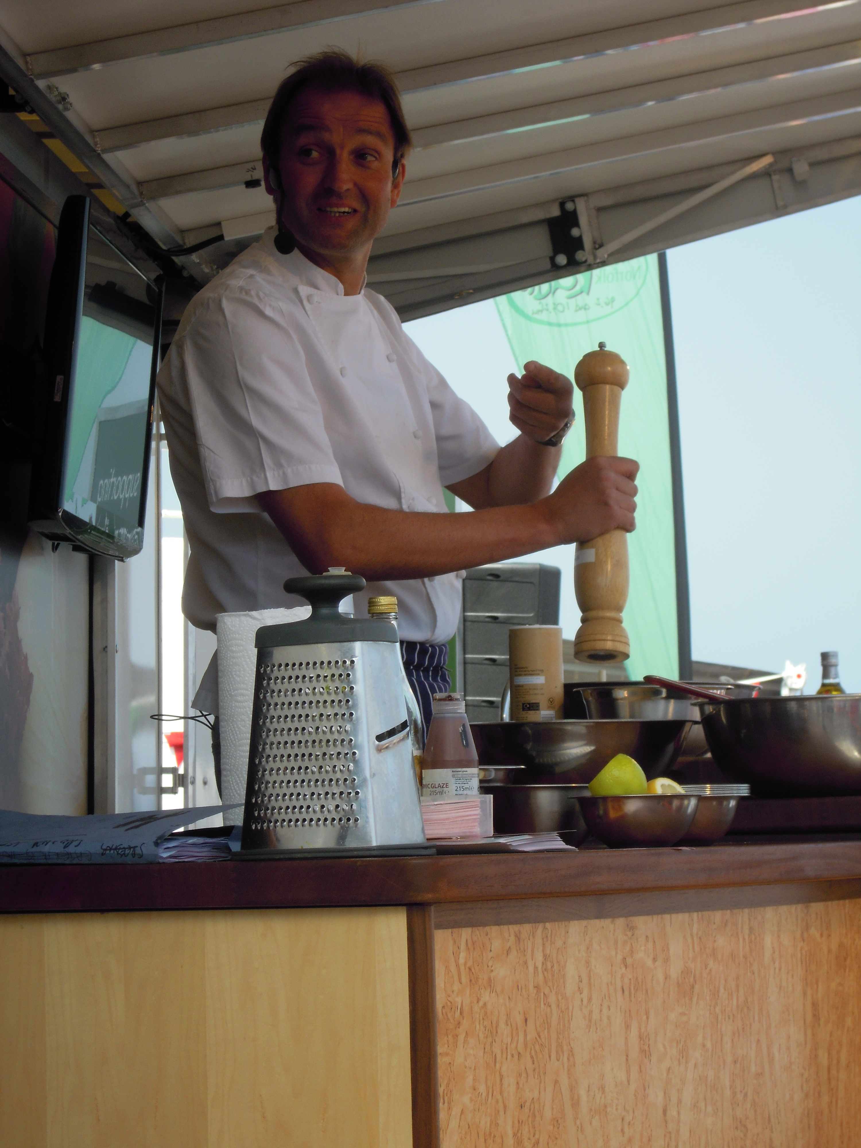 Galton Blackiston giving a cookery demonstration at the Sheringham and Cromer Crab and Lobester festival, Saturday the 22 May 2010